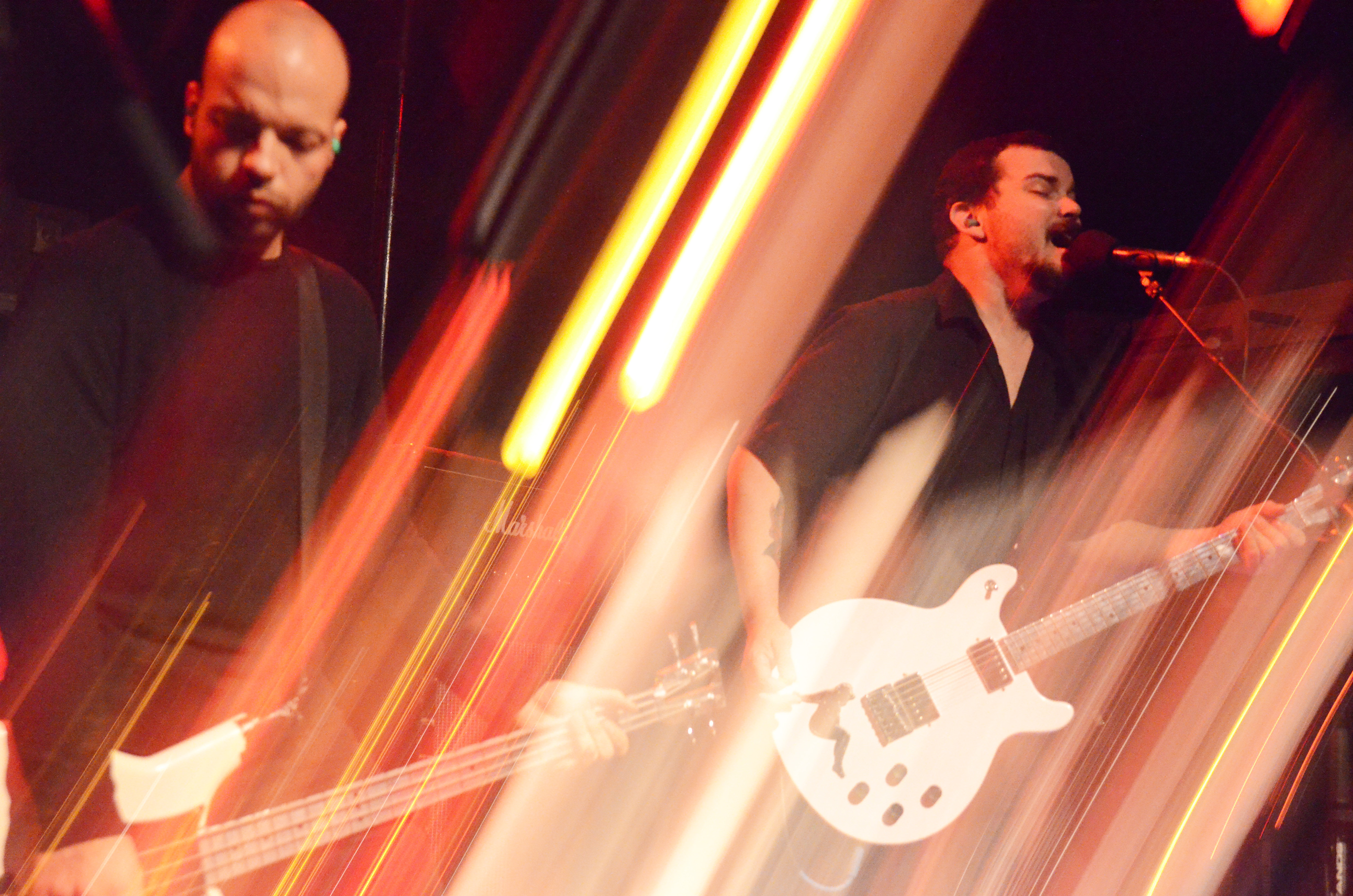 Torche live on 2/7/2013 in Carrboro, NC @ The Local 506